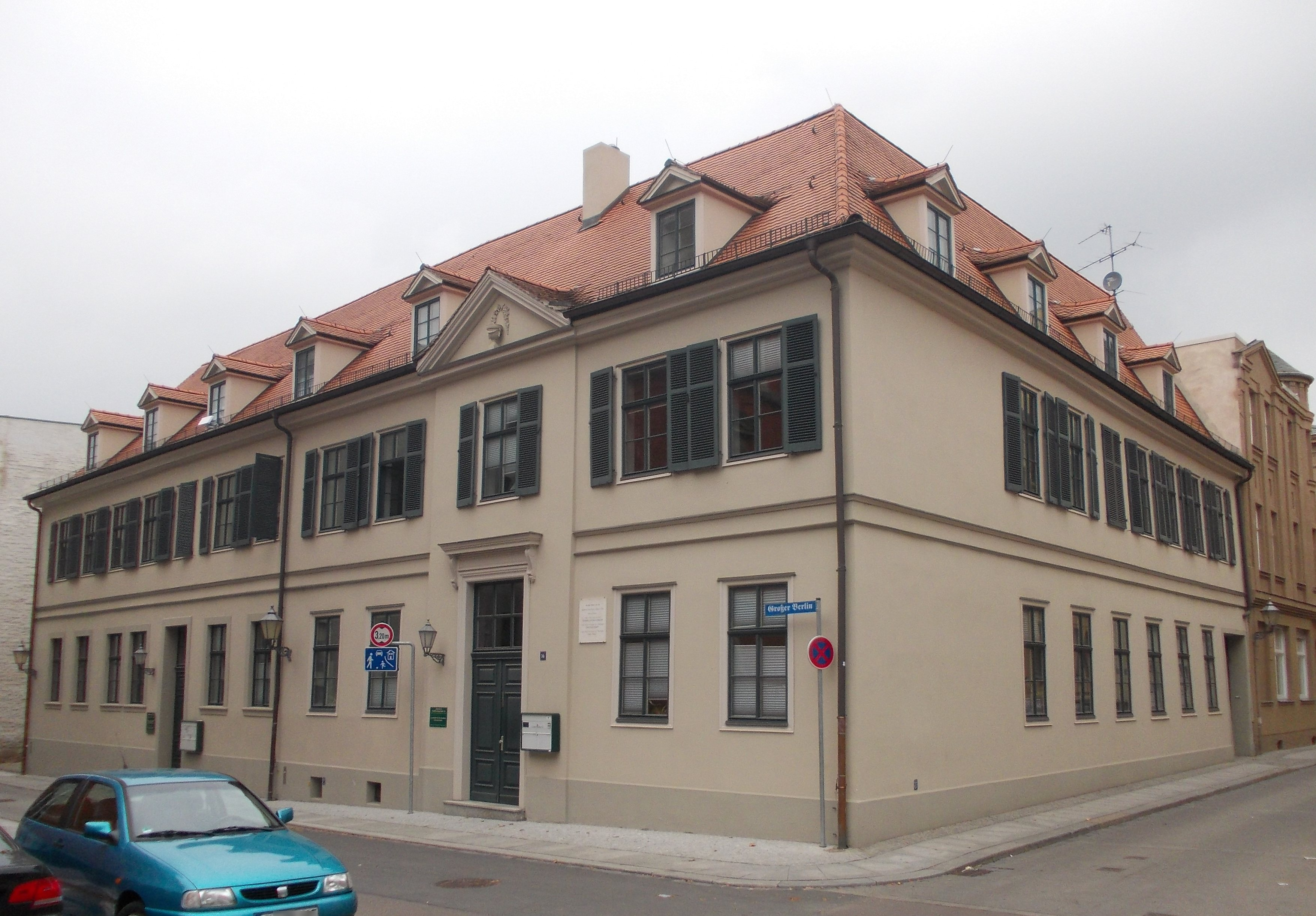 No. 14, Grosser Berlin in Halle/Saale (Saxony-Anhalt)